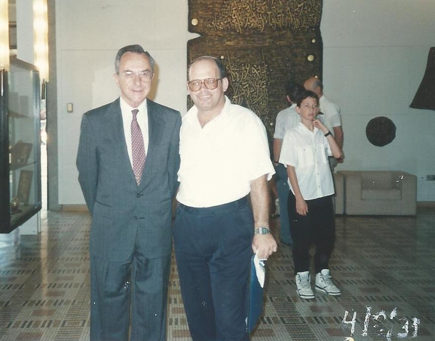 Dr. Menachem Zucker and Moshe Arens, the Israeli minister of defense.